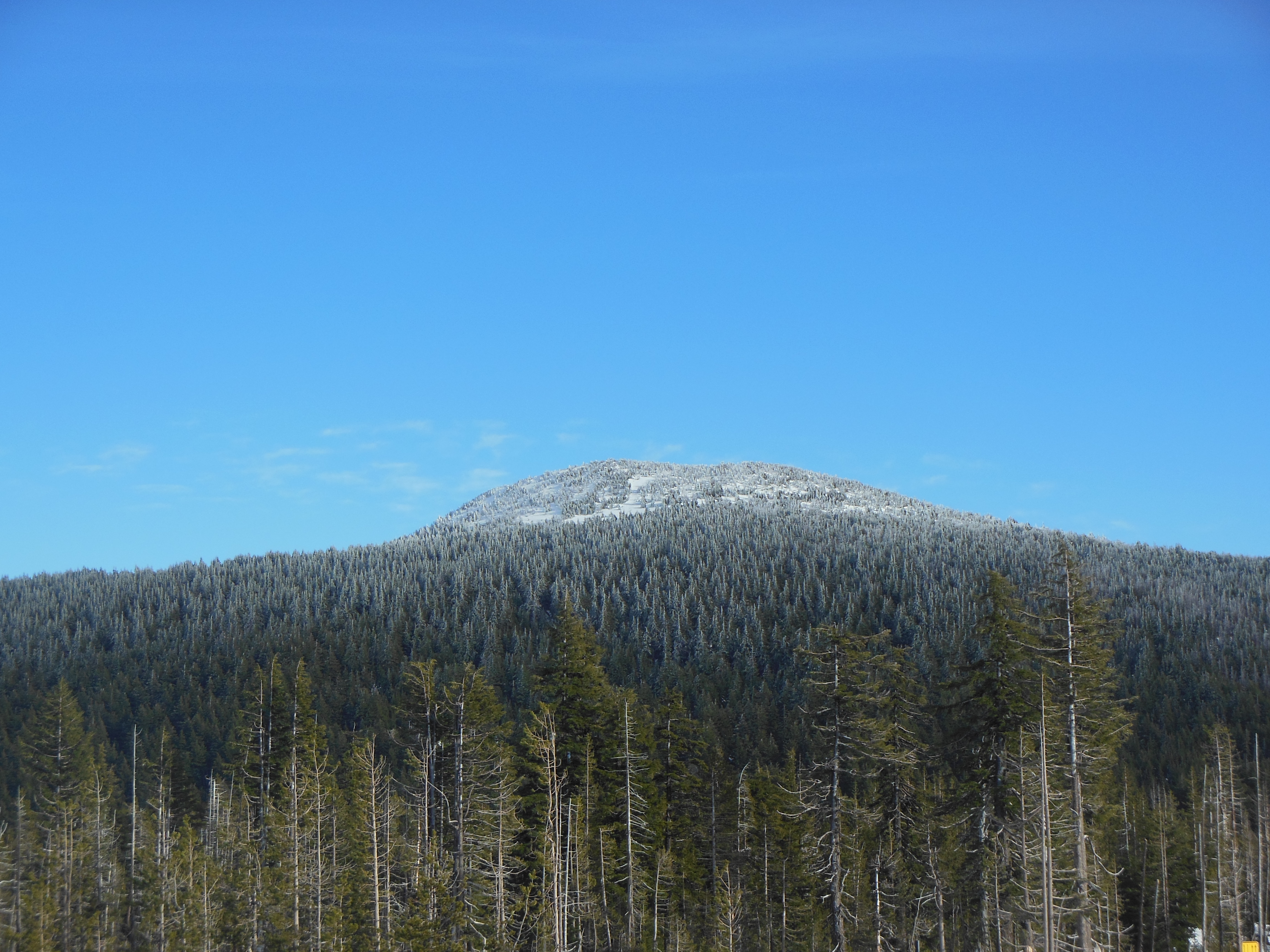 Tumalo Mountain (summit elev. 7,779 feet) in Deschutes County, Oregon, seen from below Mount Bachelor Note the small amount of snow; no winter storms hit the Oregon Cascades for December and much of January.